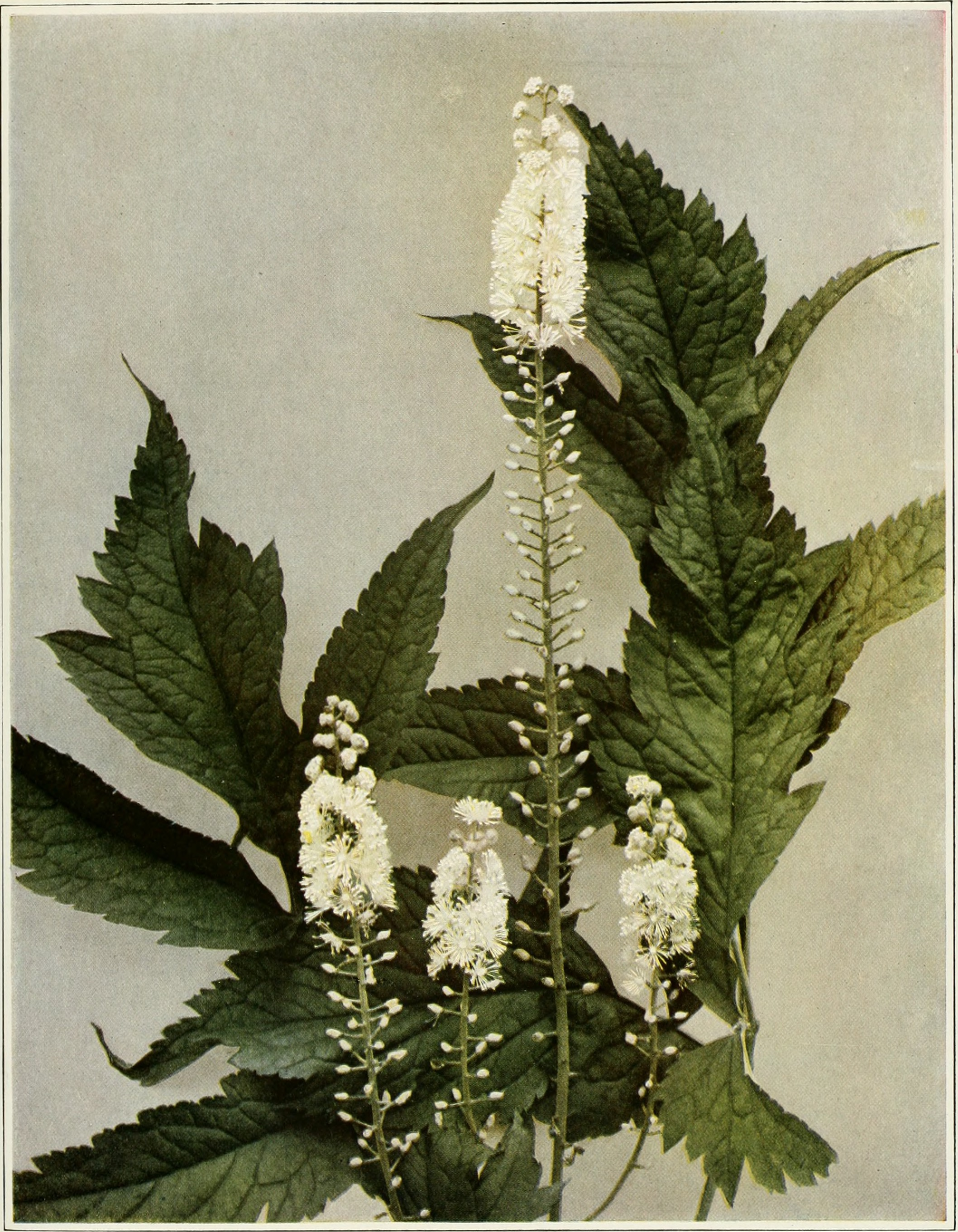 Title: Annual report Year: c1904-1920 (c190s) Authors: New York State Museum; University of the State of New York Subjects: New York State Museum; Science -- New York (State); Plants -- New York (State); Animals -- New York (State) Publisher: Albany, N. Y. : University of the State of New York Text Appearing Before Image: WILD FLOWERS OF NEW YORK Memoir 15 N. Y. State Museum Plate 64 Text Appearing After Image: BLACK SNAKEROOT; BLACK COHOSH - Cimicifuga racemosa [syn. of Actaea racemosa]